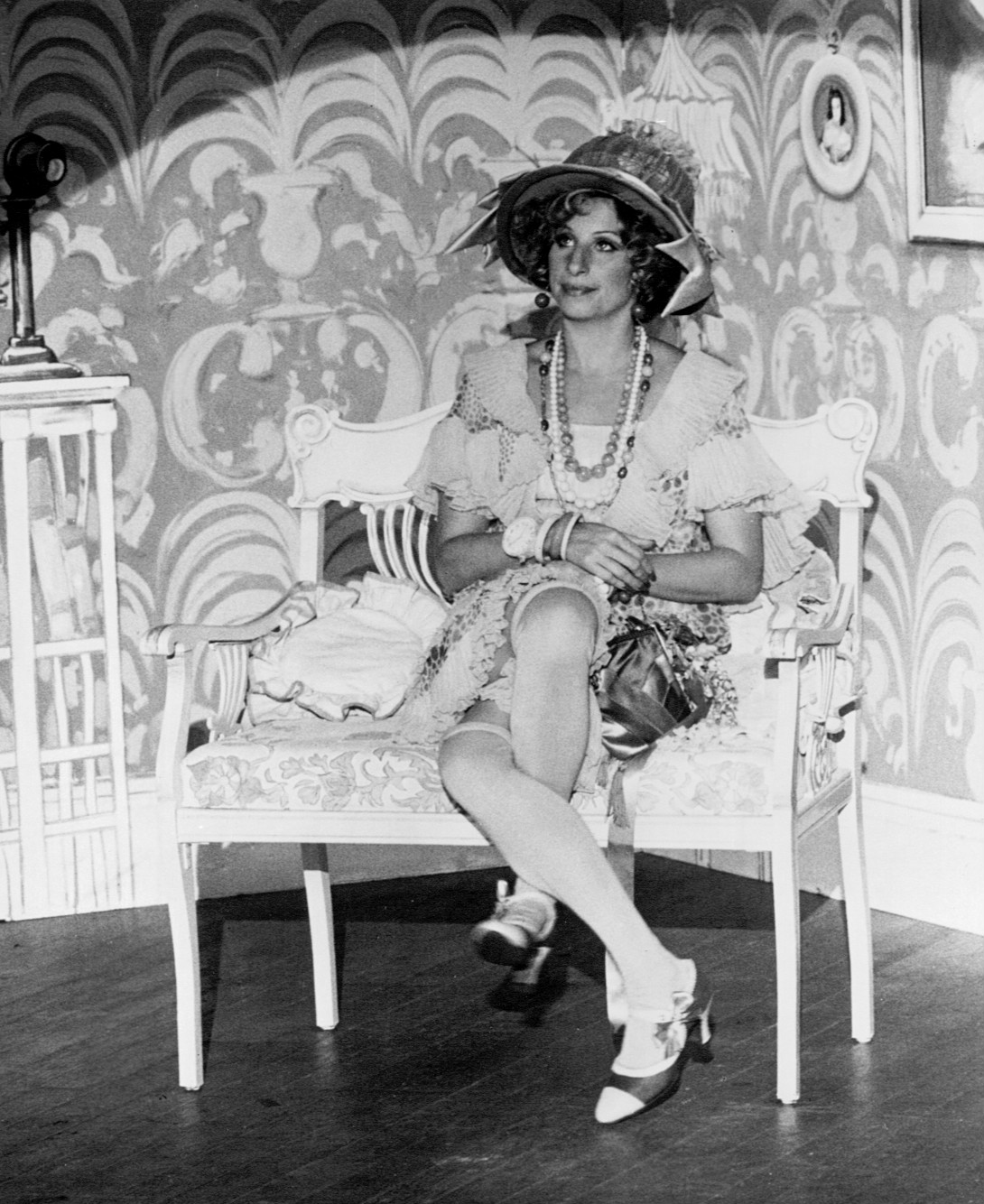 Photo of Barbara Streisand from a 1975 television special Funny Girl to funny Lady. The special was to promote the film Funny Lady.